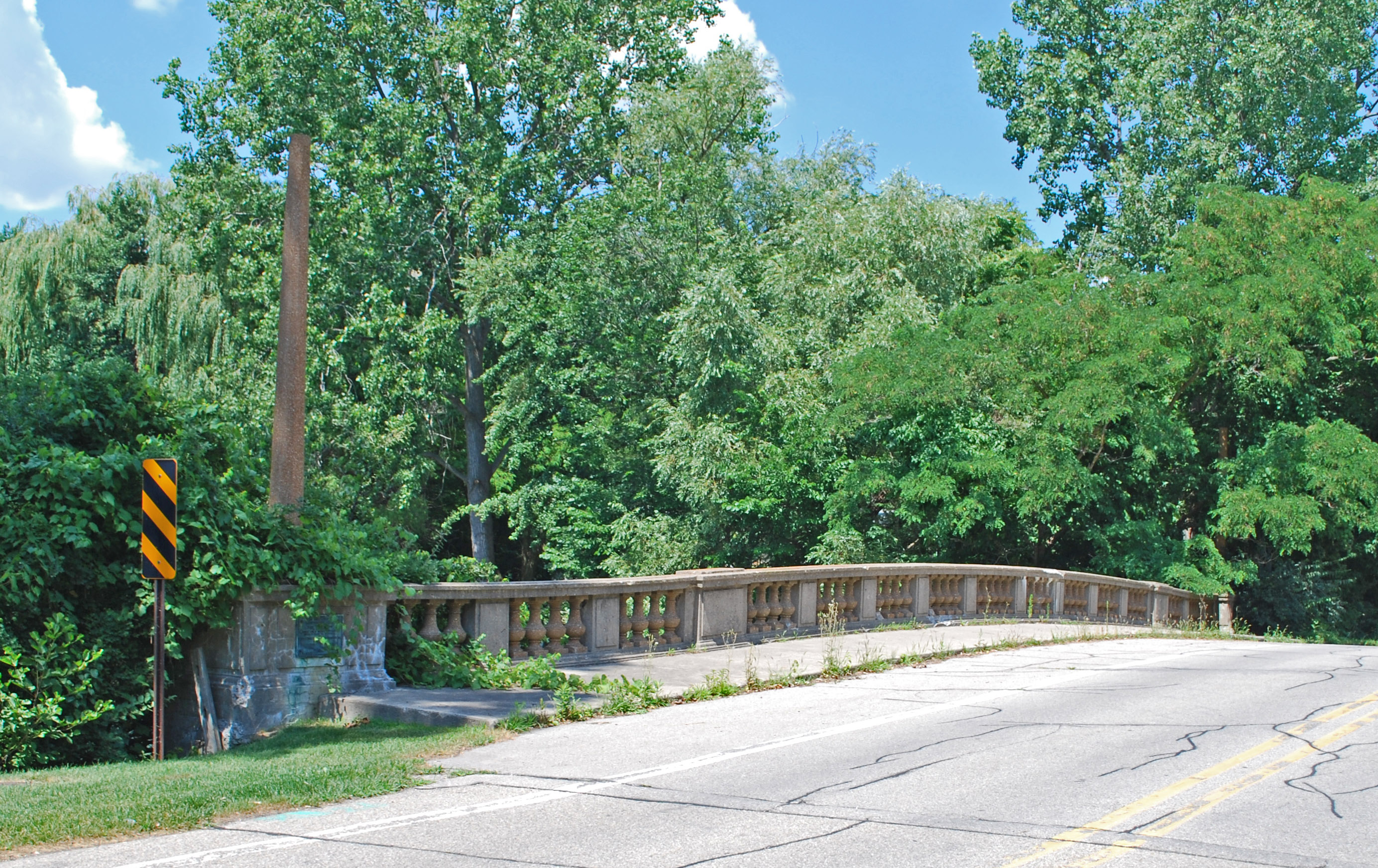 West side of bridge deck, Park Ln Thorofare Canal Bridge, Grosse Ile MI